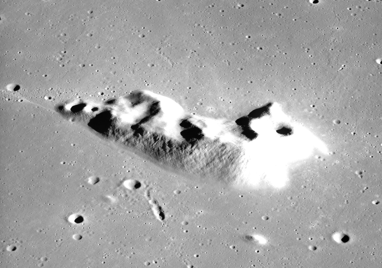 Oblique view of Mons La Hire, Mare Imbrium, facing north, on the moon.